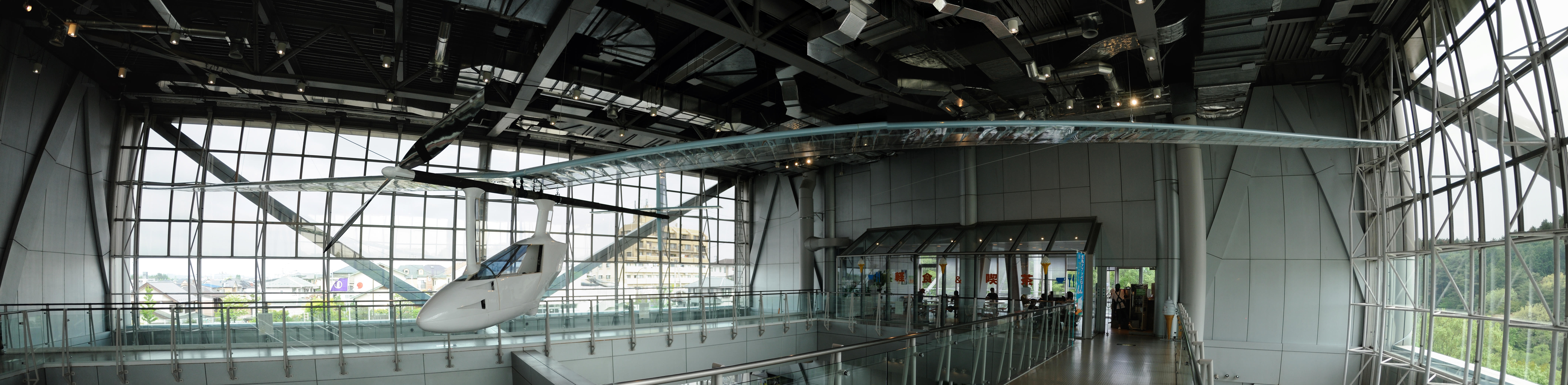 Tohoku University Human powered aircraft